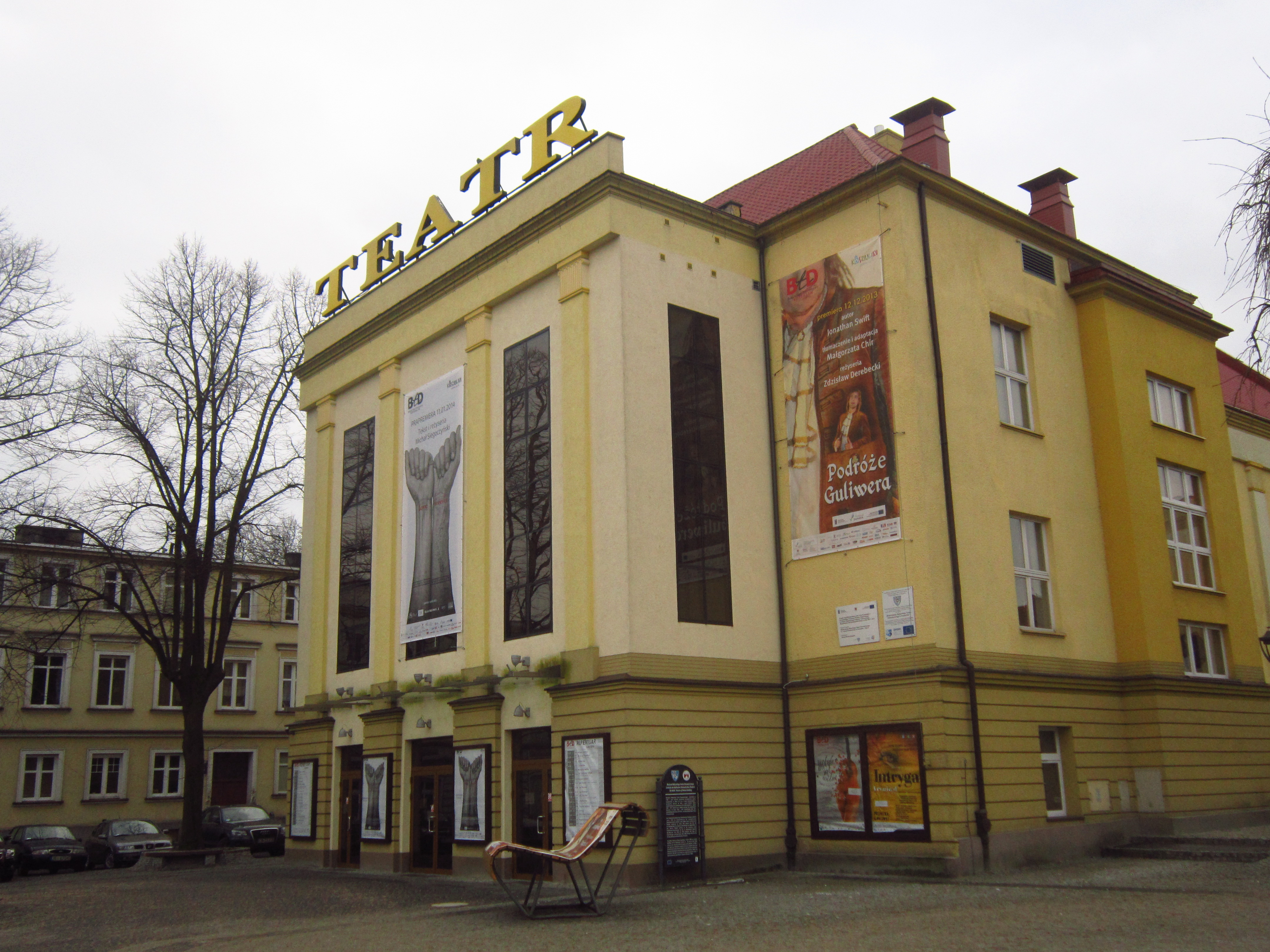 Building of Baltic Drama Theatre in Koszalin.